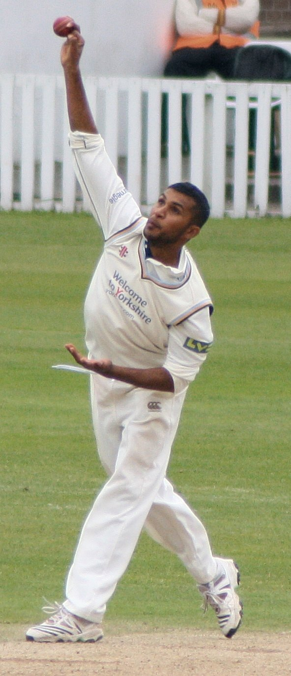 Adil Rashid bowling for Yorkshire against Somerset at the County Ground, Taunton during Day 3 of a County Championship match. Image sharpened using Paint Shop Pro 7.